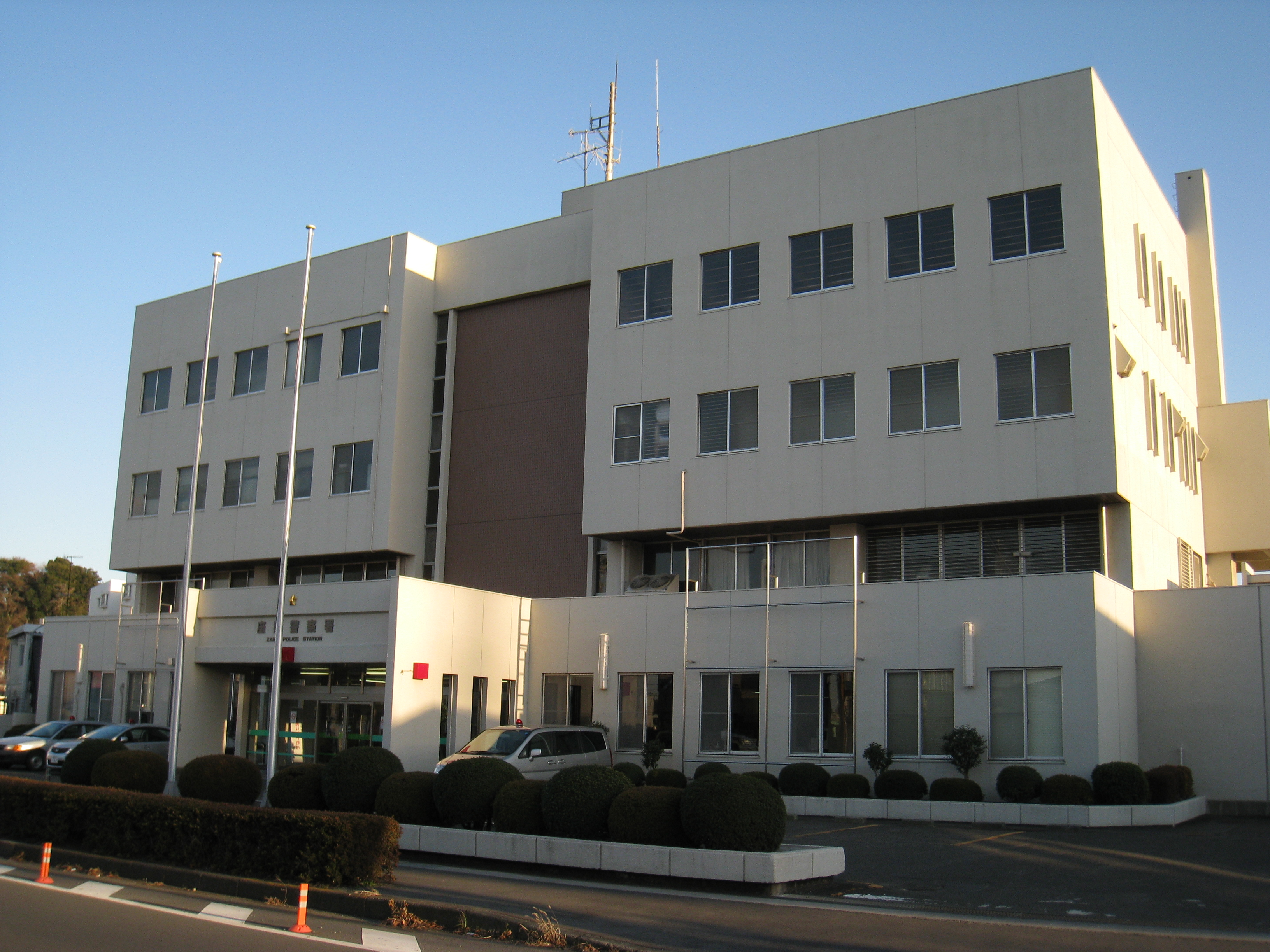 Zama Police Station